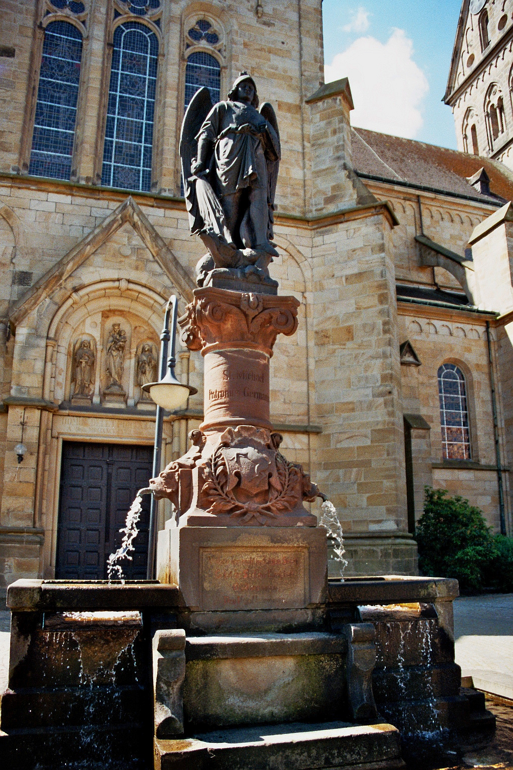 Archangel Michael Memorial (Michaelsbrunnen) at the market square of Mettingen, Kreis Steinfurt, North Rhine-Westphalia, Germany.